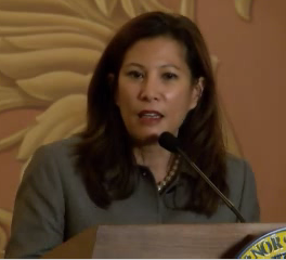 Chief Justice Tani Cantil-Sakauye speaking at the confirmation of Justice Goodwin Liu.